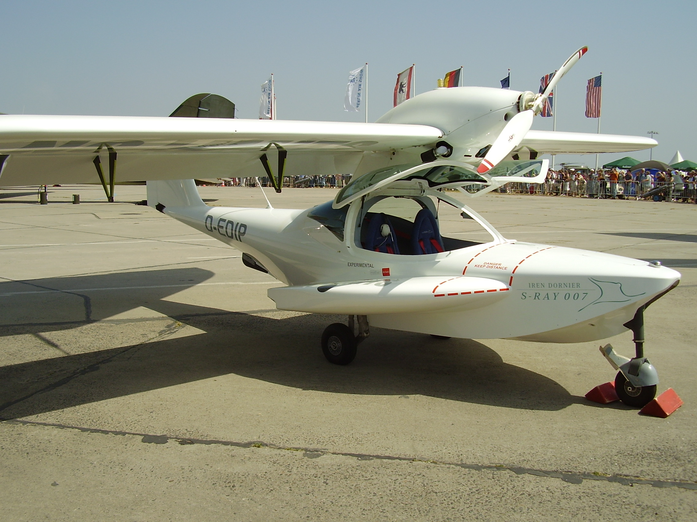 ILA 2008, Dornier S-Ray 007, registration D-EDIP